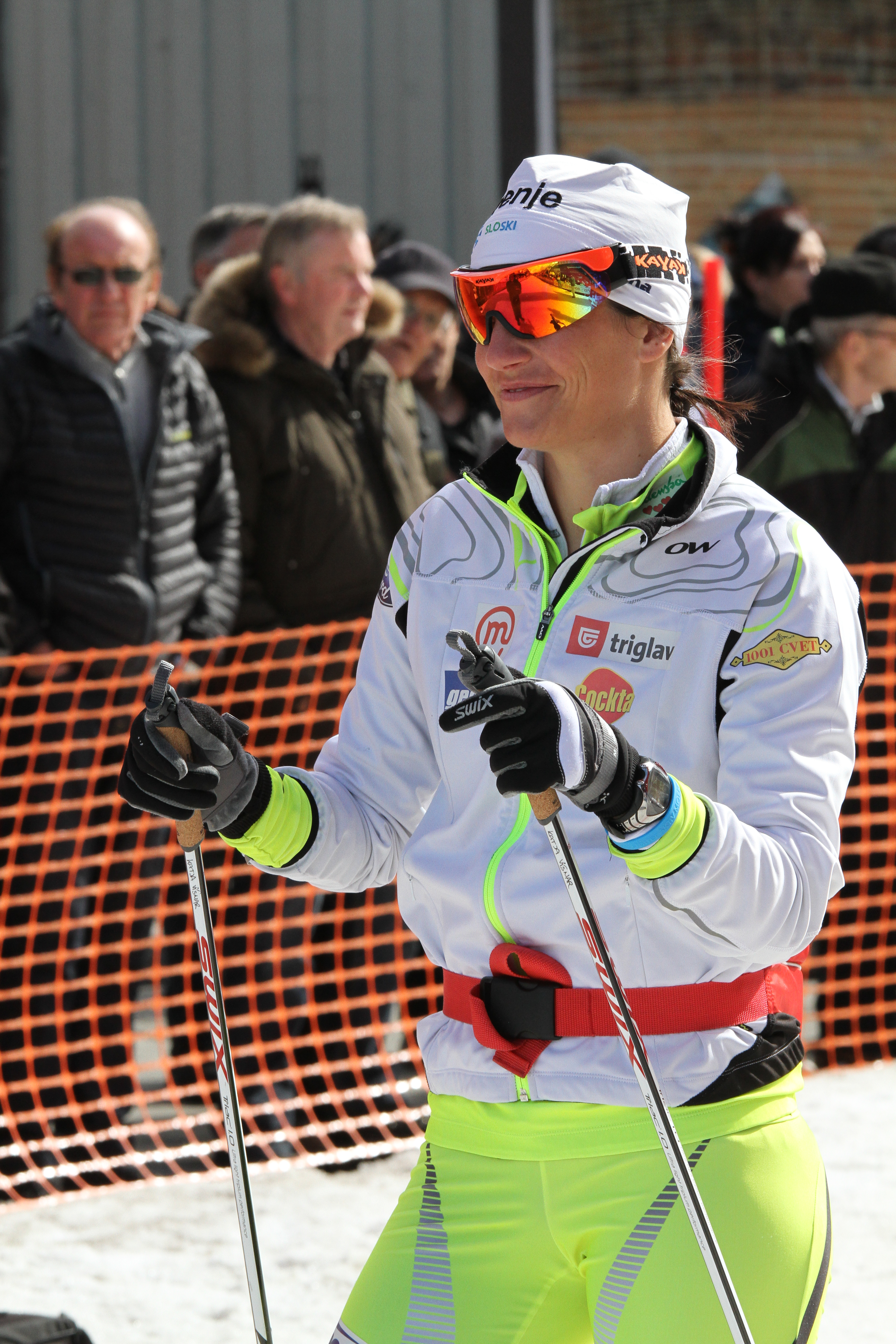 Slovenian cross-country skier Katja Višnar at the exhibition sprint race "Bysprinten" in Mosjøen, Norway.